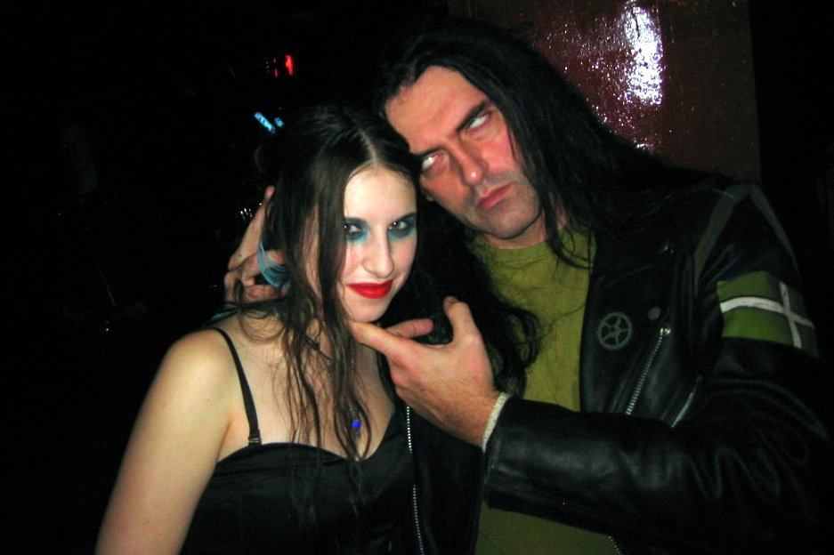 Peter Steele and a fan (the fan is the Flickr user, so no personality rights involved) at Otto's Daughter